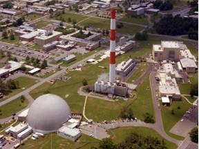 Operating from 1965-1996, the High Flux Beam Reactor (domed complex, bottom left), located at the Brookhaven National Laboratory, was constructed solely for scientific research, providing neutrons for materials science, chemistry, biology, and physics experiments. EM is now focusing efforts to decommission and demolish this facility.